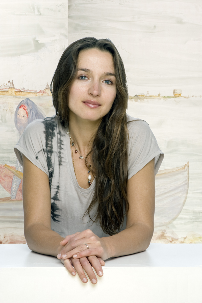 Portrait of Veronica Smirnoff, London based artist